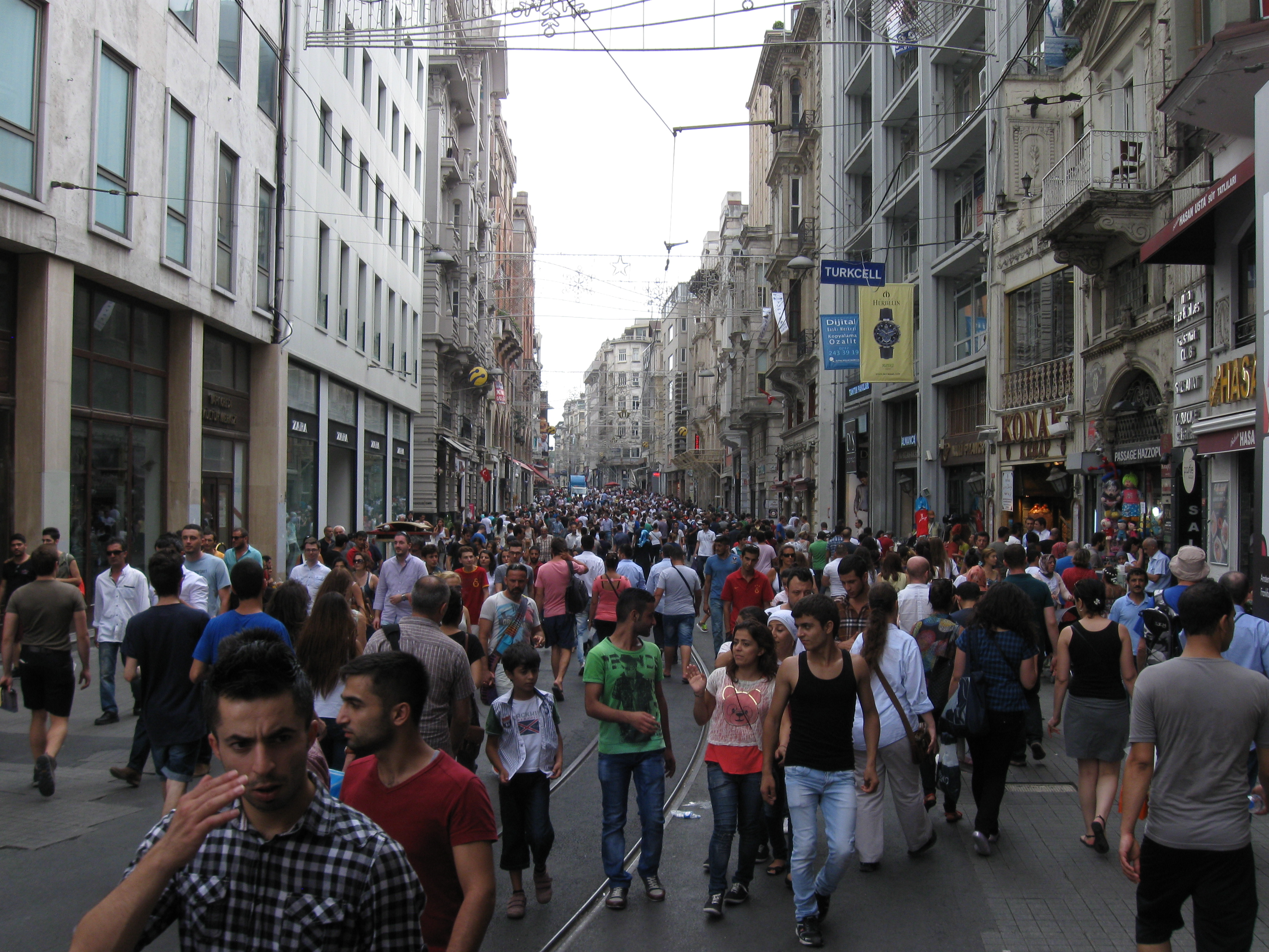 İstiklal Avenue or Istiklal Street is one of the most famous avenues in Istanbul, Turkey, visited by nearly 3 million people in a single day over the course of weekends. Located in the historic Beyoğlu (Pera) district, it is an elegant pedestrian street, 1.4 kilometers long, which houses boutiques, music stores, bookstores, art galleries, cinemas, theatres, libraries, cafés, pubs, night clubs with live music, historical patisseries, chocolateries and restaurants.